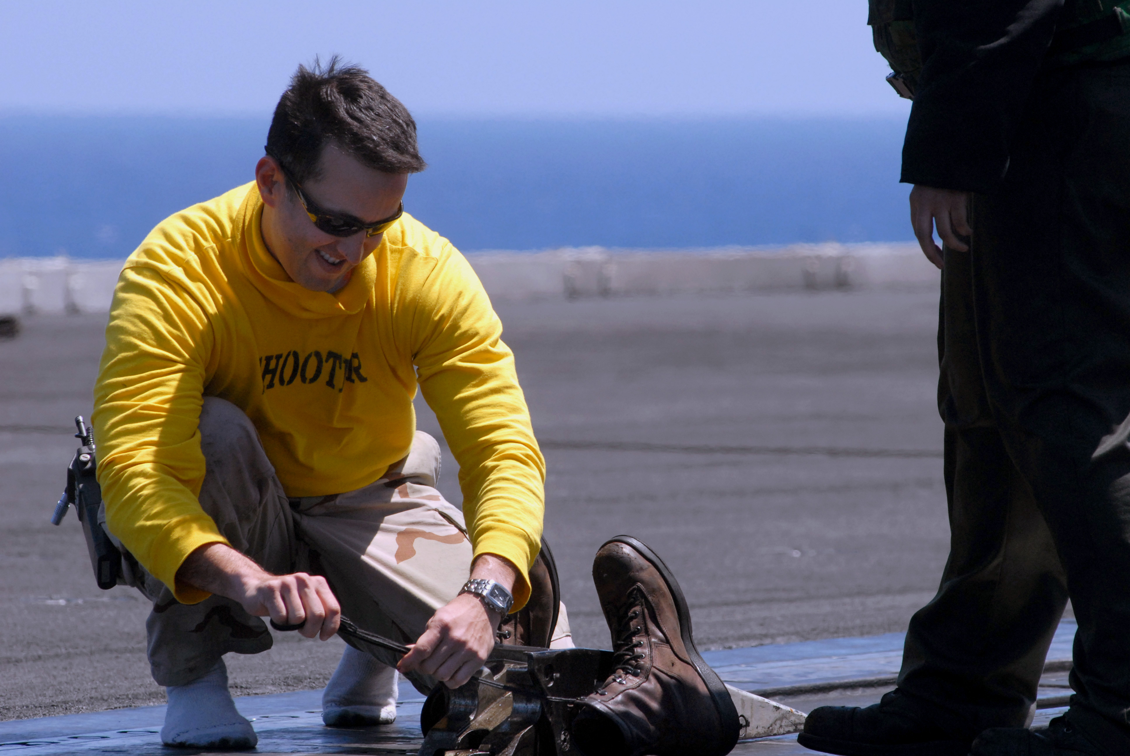 080418-N-0555B-038 PACIFIC OCEAN (April 18, 2008) Lt. Cmdr. Mark Yates, a "shooter" aboard the Nimitz-class aircraft carrier USS Ronald Reagan (CVN 76), ties his boots to one of the ship's catapults in the time-honored tradition of launching them off the flight deck at the end of a two-year tour. The Ronald Reagan Carrier Strike Group is has successfully completed a Joint Task Force Exercise, the final hurdle before their upcoming deployment. U.S. Navy photo by Mass Communication Specialist 2nd Class Christopher D. Blachly (Released)